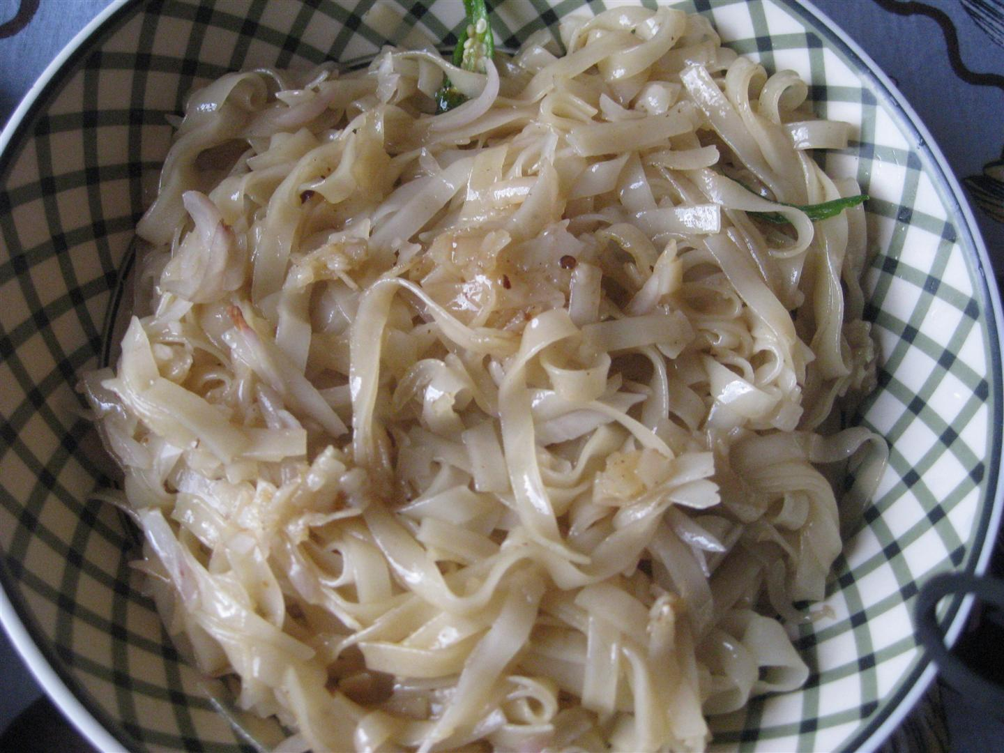 A bawl of rice noodles